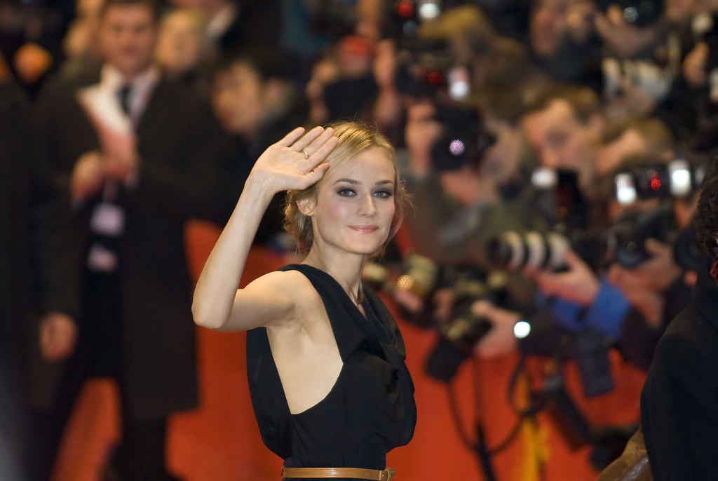 Diane Kruger, Member of the international jury, Opening of the 58th Berlin International Film Festival On request of some friends. A little blurry but a nice smile.